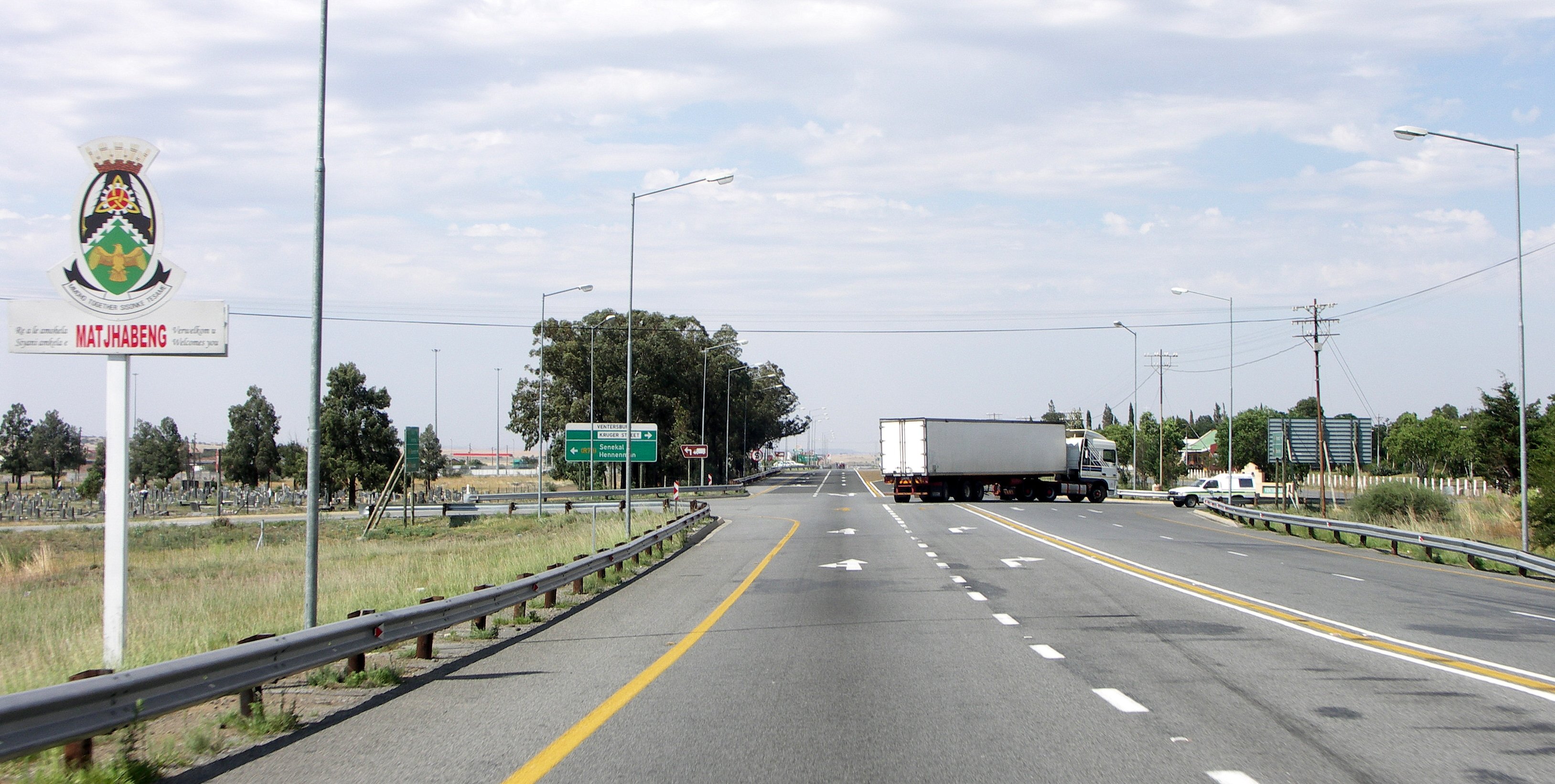 The N1 National road passing through Ventersburg, Matjhabeng Local Municipality in the Free State, South Africa